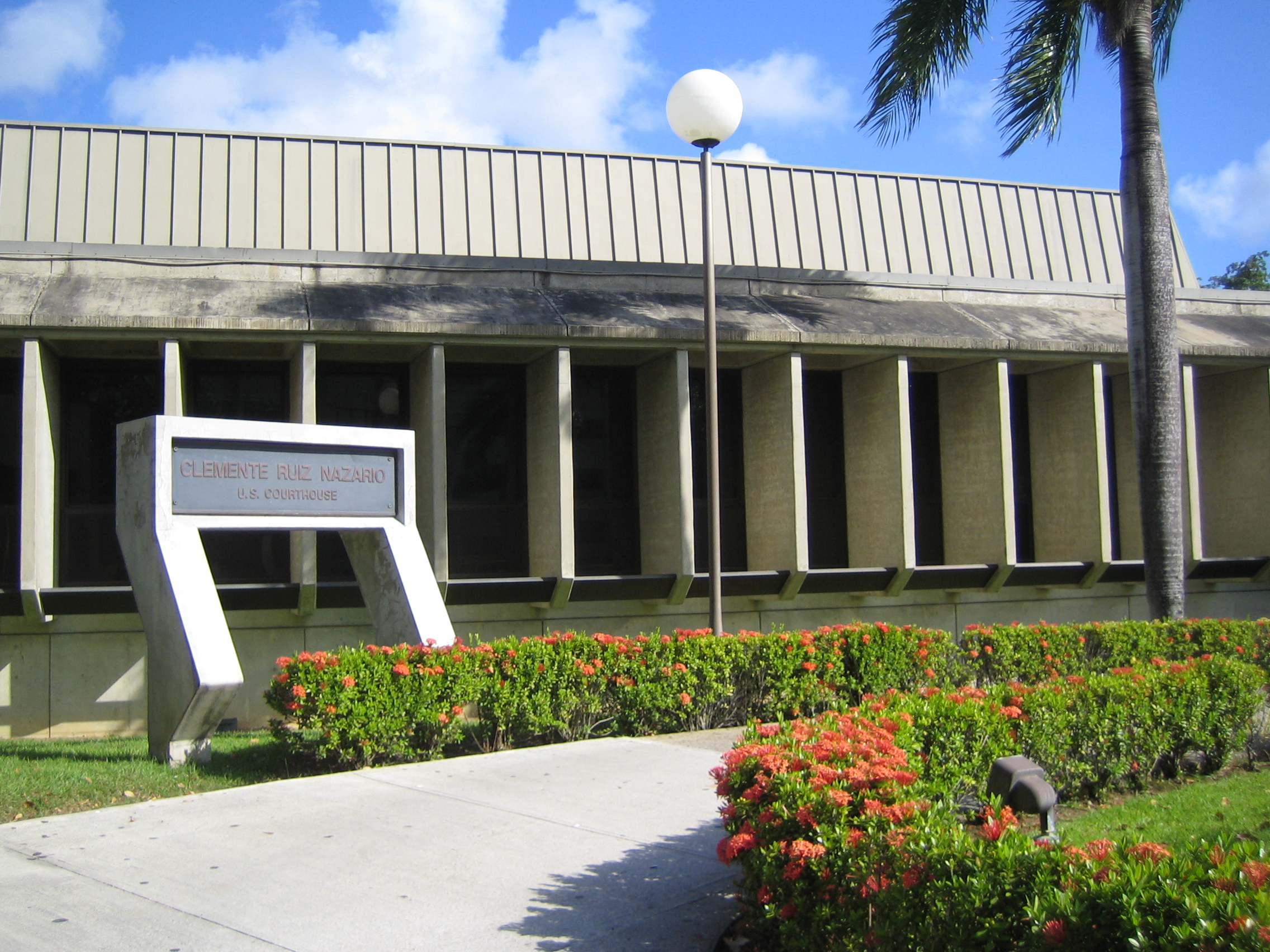 The US Dist Court for Puerto Rico. In San Juan (Hato Rey). Clemente Ruiz Nazario Courthouse.